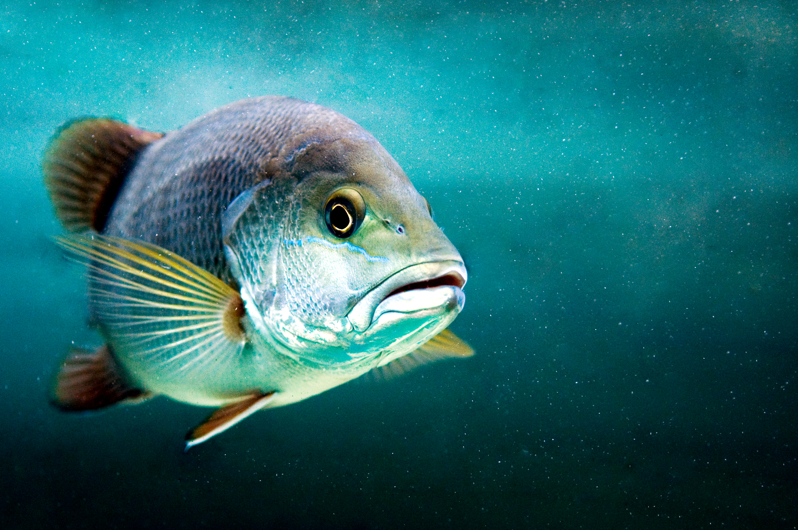 Mangrove Jack (Lutjanus argentimaculatus)